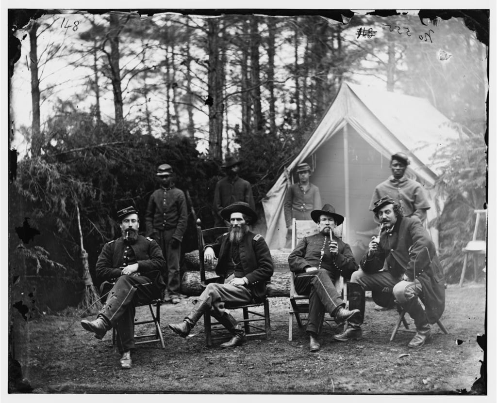 View of Capt. James M. Robertson (second from left, front row seated), 1st Brigade, Horse Artillery, February 1864. Photograph is from the main eastern theater of the Civil War, winter quarters at Brandy Station, Virginia. The print shows uniformed African-American in back of white officers. Glass wet collodion negative.